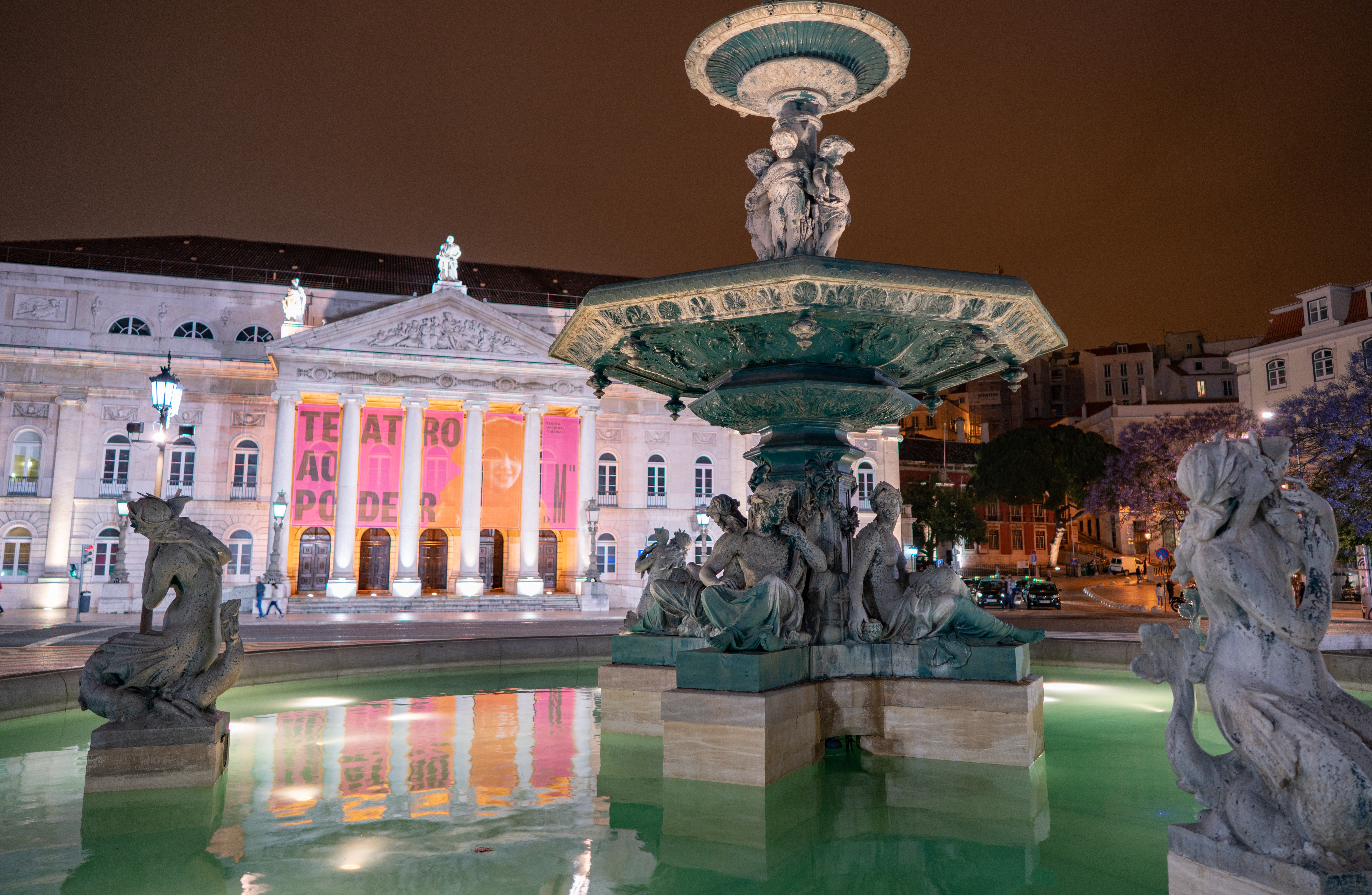 from Rossio Square